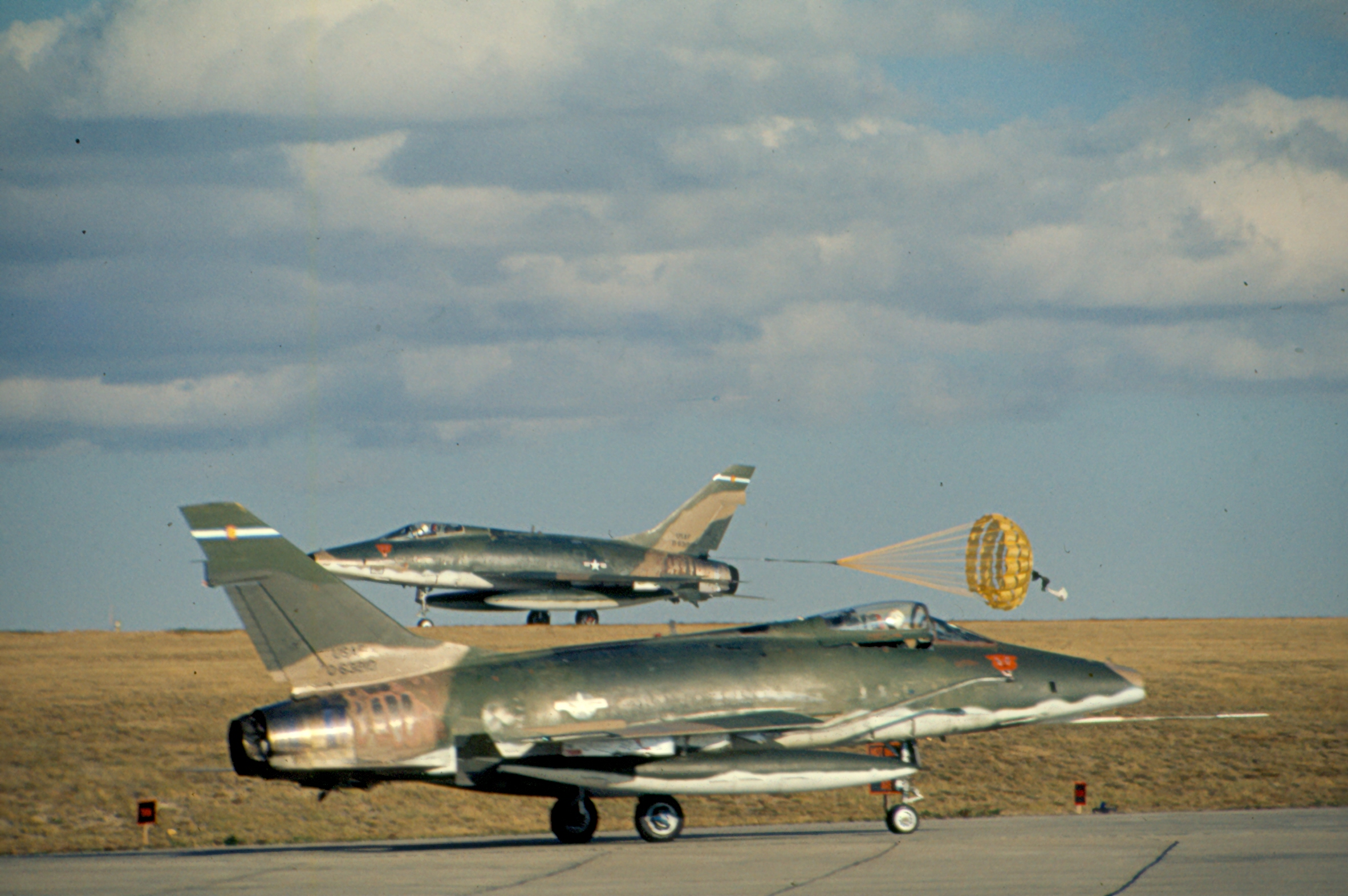 Two U.S. Air Force North American F-100D Super Sabres, from the 120th Tactical Fighter Squadron, 140th Fighter Wing, Colorado Air National Guard, after having just landed at Buckley Air National Guard Base in Aurora, Colorado (USA), in April 1976. Both aircraft are taxiing, one with the drag chute deployed.